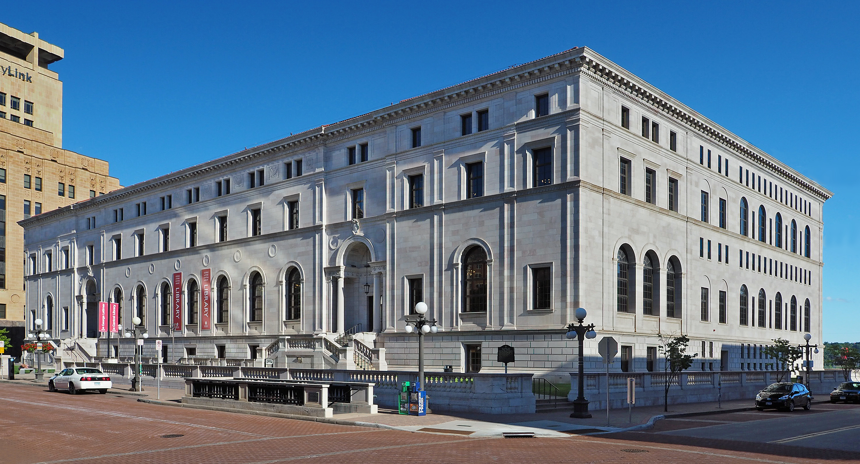 George Latimer Central Library, 90 W 4th St, Saint Paul, Minnesota, USA. Viewed from the northwest.